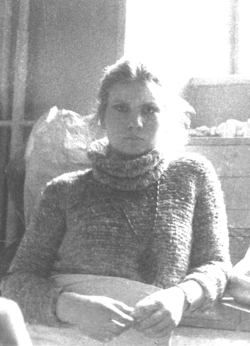 Sculptor Zoja Trofimiuk in sculpture studio, 1976, ASP, Krakow, Poland